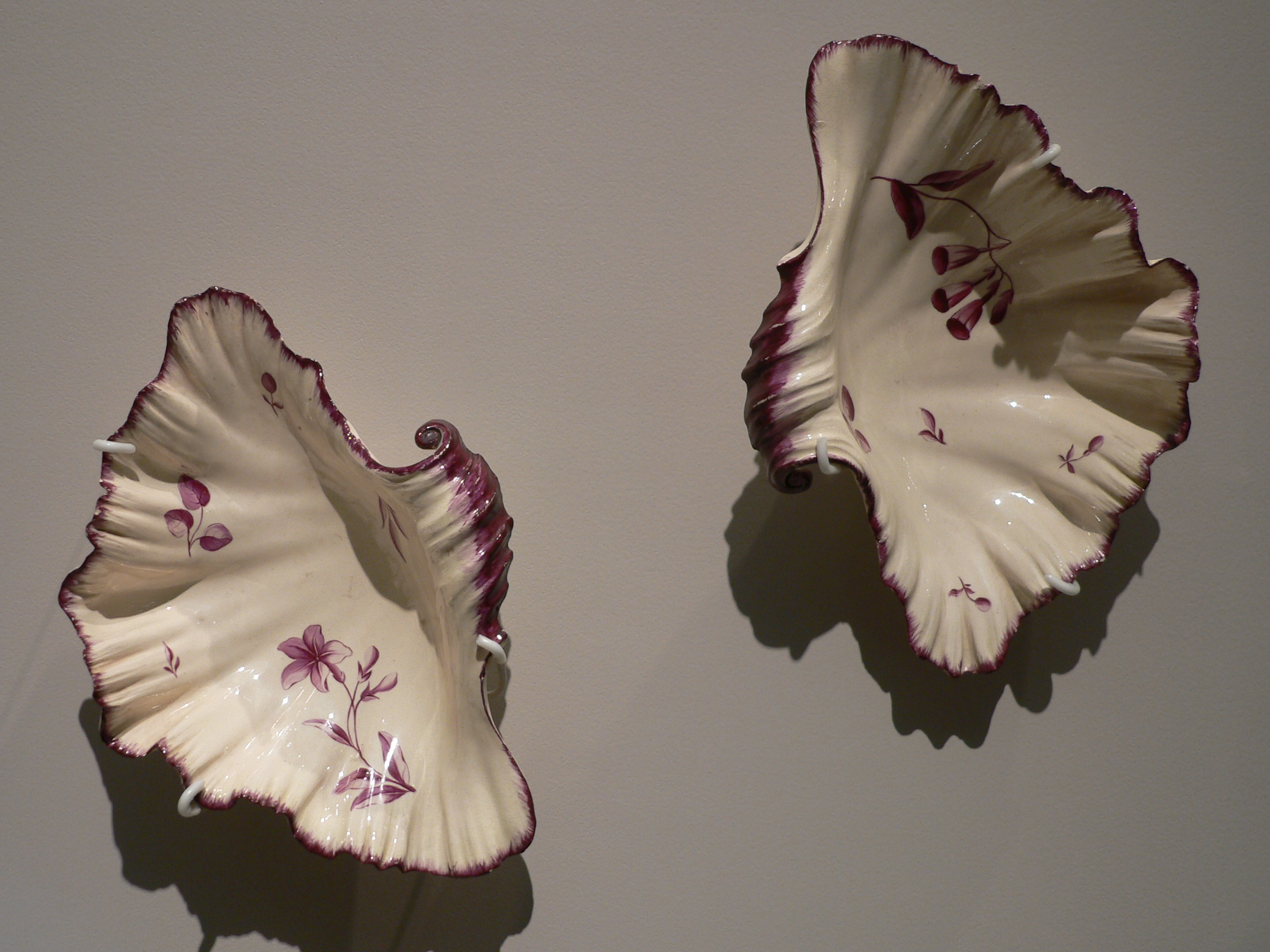 Josiah Wedgwood & Co. Staffordshire, England, 1768- Dessert dishes, c 1760-70, lead-glazed earthenware with painted decoration (creamware)